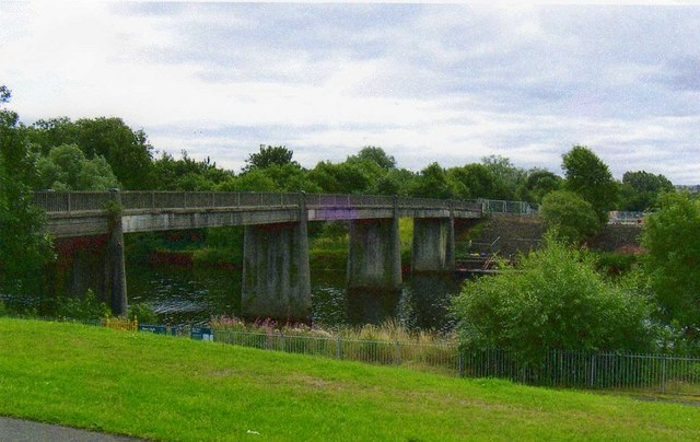 Polmadie Bridge Spans the River Clyde.